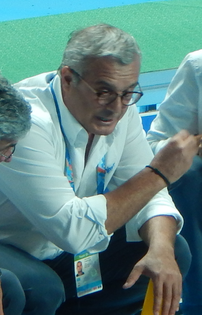 Italy's coach Alessandro Campagna, in the bronze medal match between Team Greece and Team Italy.